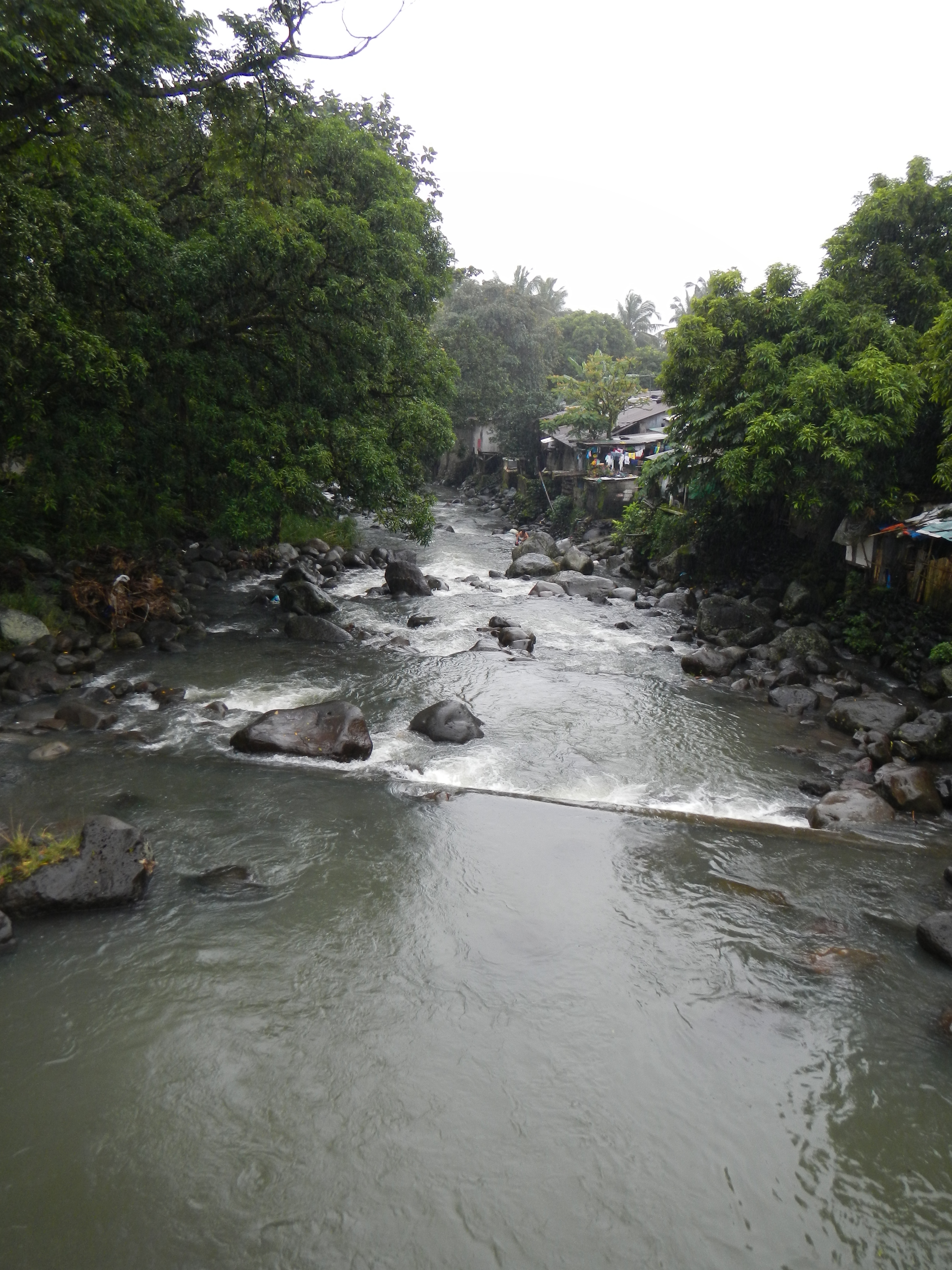 Upload Wizard photos of -- (general description of landmarks, town, Church, going to dark, sunset conditions) - Barangay Calumpang, Crossing, Junction, bus and tricycle stop, where all vehicles going North and South passby, this Daang Maharlika or Pan-Philippine Highway - this Intersection is the gateway to Town Proper of Tayabas and towards Malaoa Bridges located 4kms. from the town proper of Tayabas, Quezon, a century-old reckoned bridge but is still passable and underneath is the Tayabas River [1] Latitude. 13.9000°, Longitude. 121.6000° Basilica of Saint Michael the Archangel of Tayabas 4327 Quezon, Philippines Canonical Erection: 1580 Titular: St. Michael the Archangel Parochial Feast: September 29 Parish Priest: Msgr. Carlos Pedro A. Herrera, P.C. Parochial Vicar: Father Robert Cadid Vicariate of St. James Vicar Forane: Msgr. Emmanuel Ma. L. Villareal, P.C. "Ang Simbahan ng Tayabas" Founded 1585 - Centro Catolico De Tayabas "Basilika Menor ni San Miguel Arkanghel" Episcopal District of St. Luke In-Charge: Msgr. Leandro N. Castro, P.C. - Tayabas[2] City.